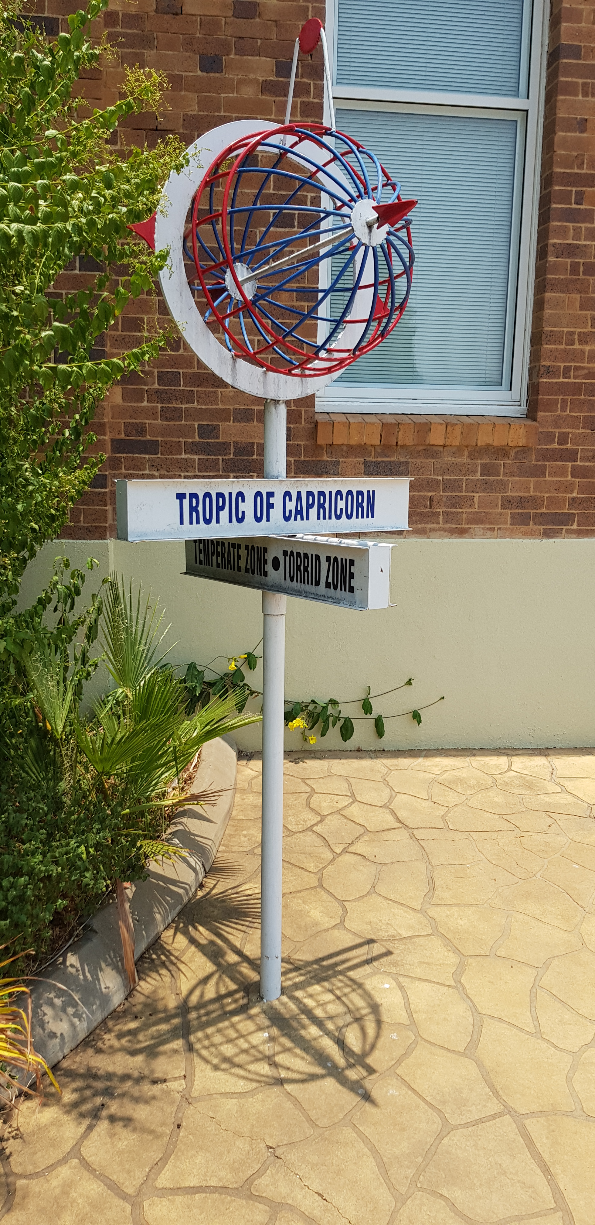 Longreach, Queensland, Australia at midday (12:21pm AEST) of the Summer solstice (22 Dec) in 2019. Note the shadow is directly under the sign. The exact summer solstice was at 2:19pm.